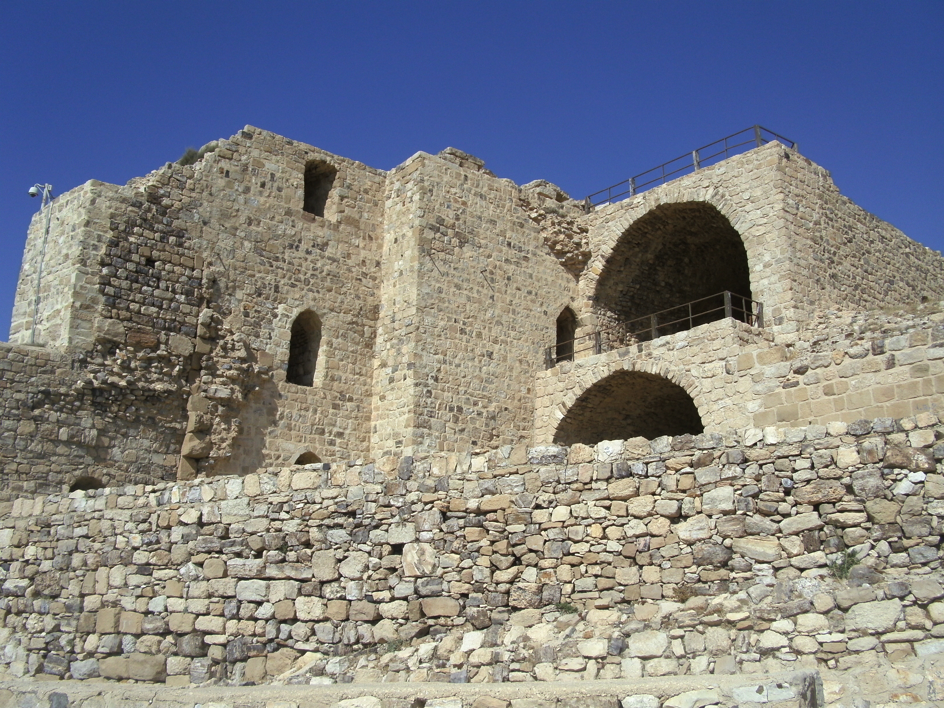 Kerak Castle is a large crusader castle located in Kerak in Jordan. It is one of the largest crusader castles in the Levant. Construction of the castle began in the 1140s, under Pagan, Fulk of Jerusalem's butler. The Crusaders called it Crac des Moabites or "Karak in Moab", as it is frequently referred to in history books.